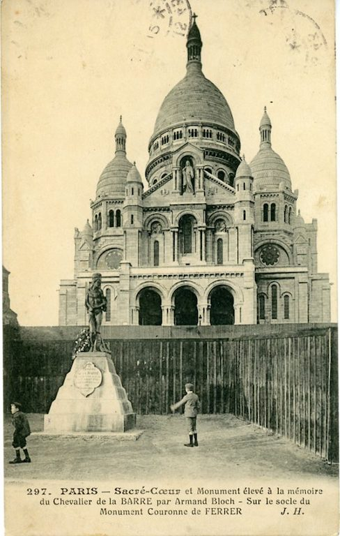 French postcard circa 1906. Monument to the Chevalier de La Barre - Paris, 18th arr. at Sacré-Cœur de Montmartre (later relocated 1926 and later melted by Vichy French).